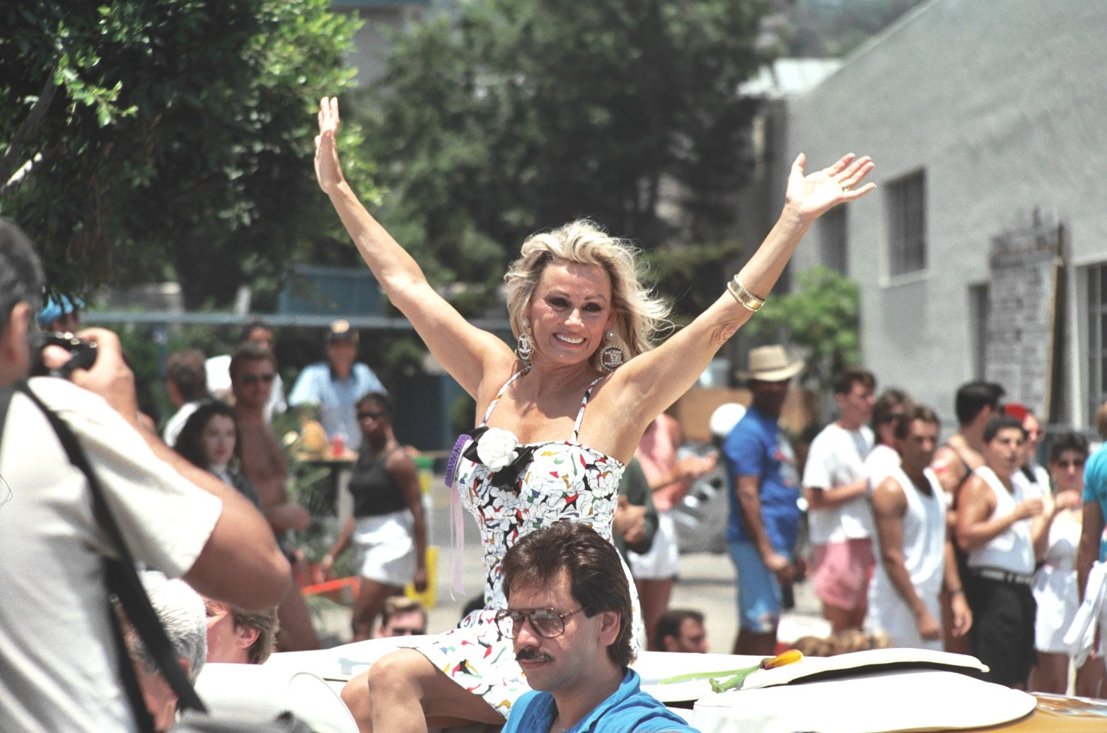 Mamie Van Doren, arms raised above head, riding in convertable car in a Gay Pride parade, Los Angeles, June 1987